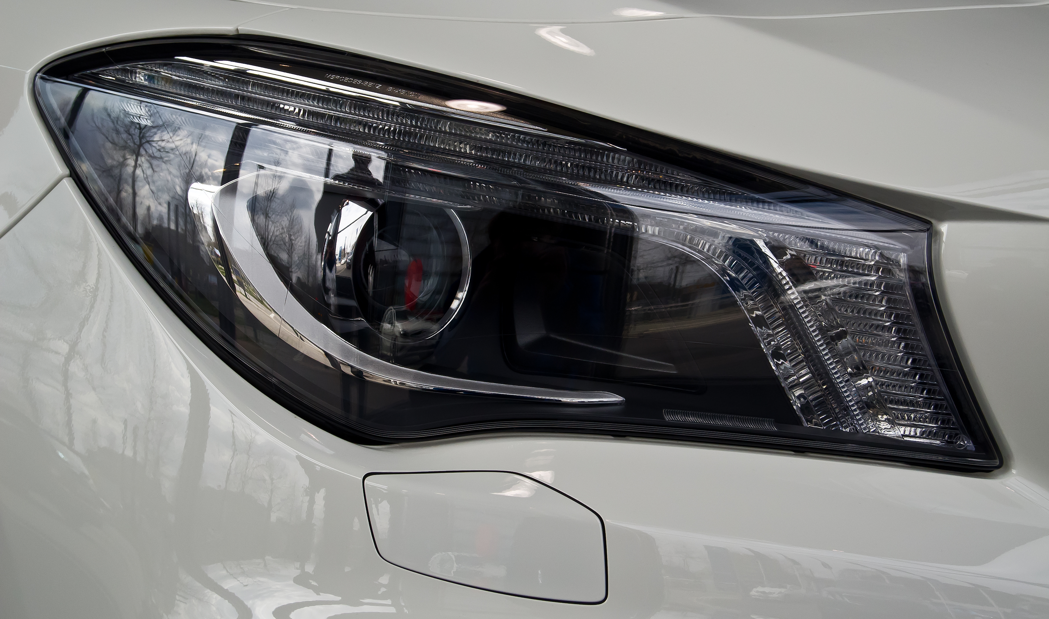 Mercedes-Benz CLA 200 Edition 1 (C 117)